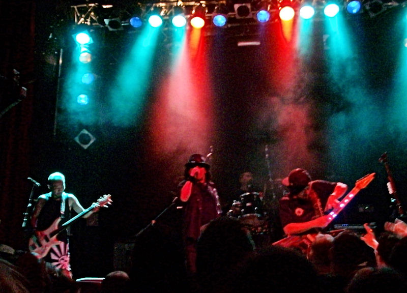 Japanese heavy metal band Loudness live at the Knust in Hamburg, Germany, 20-07-2010